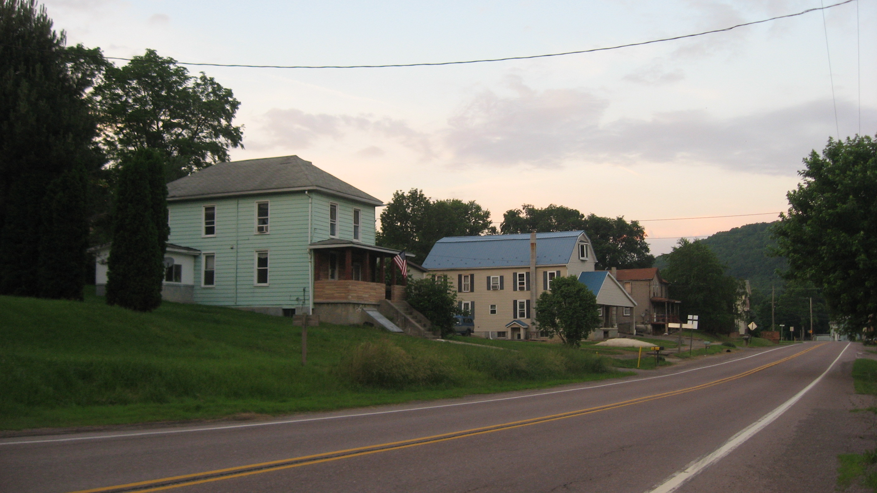 Houses on the northern side of Park Street (Route 281) east of the First Street intersection in Ursina, Pennsylvania, United States.